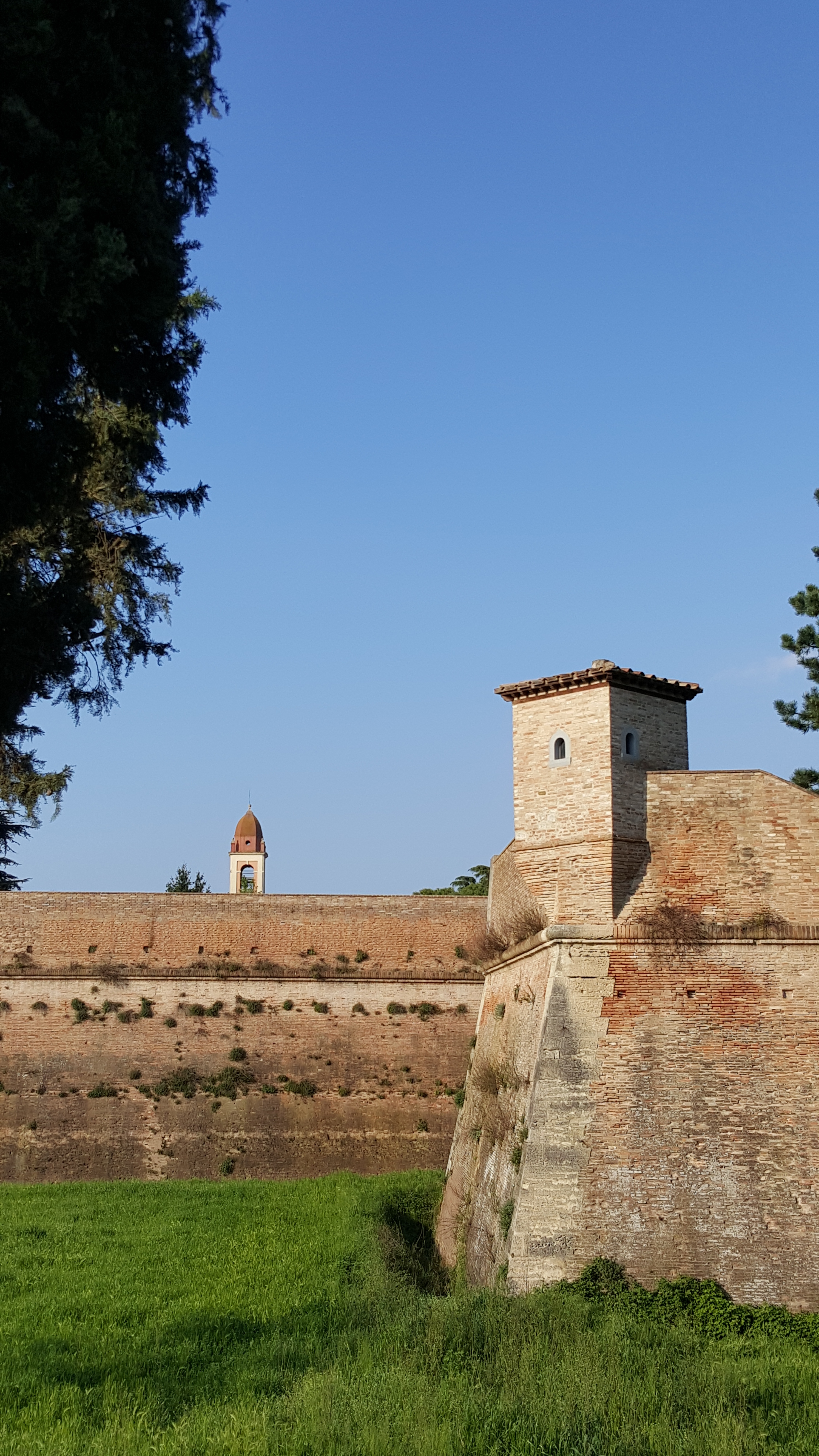 This is a photo of a monument which is part of cultural heritage of Italy.